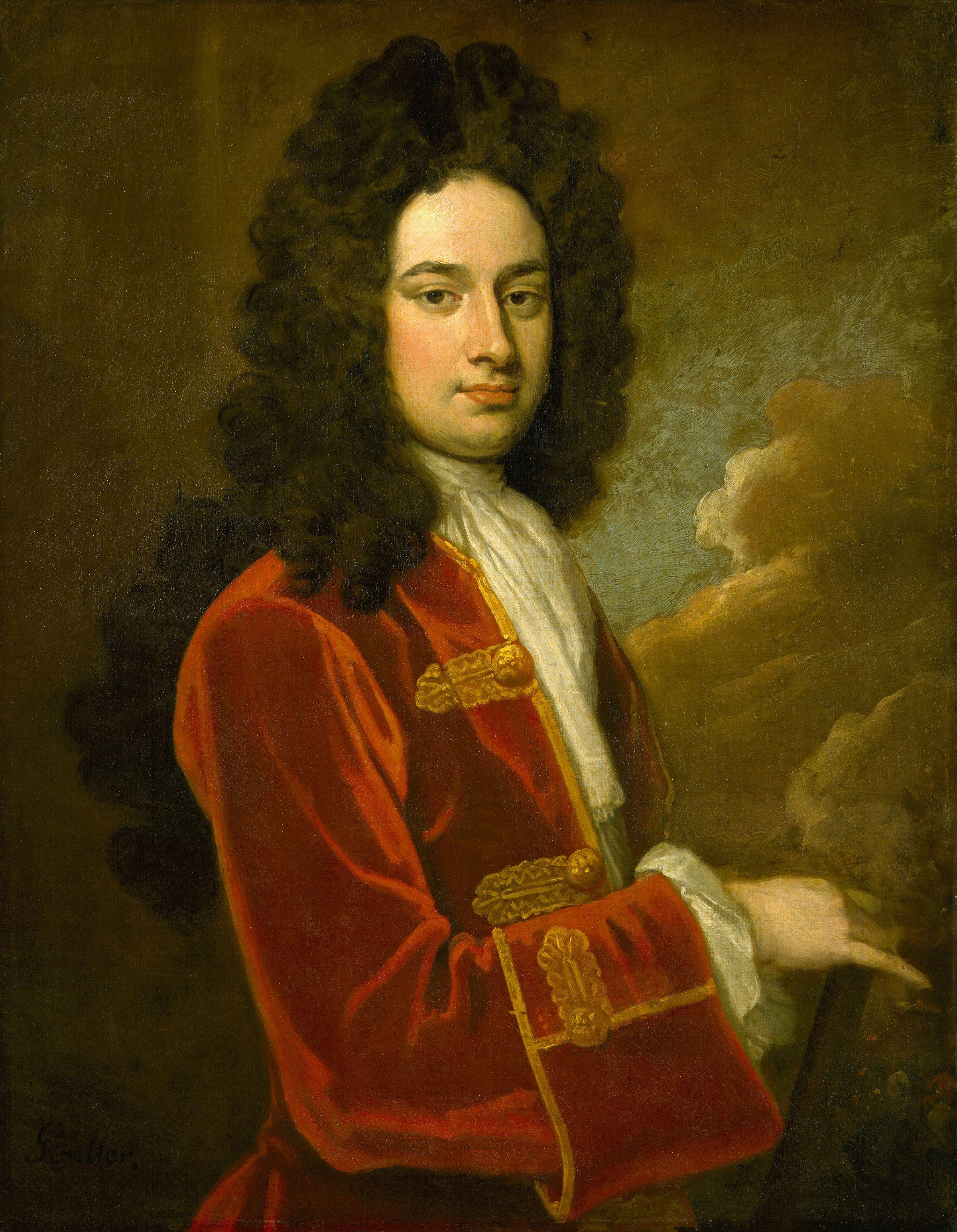 Portrait of James Stanhope, 1st Earl Stanhope (c.1673-1721), see James Stanhope, 1st Earl Stanhope